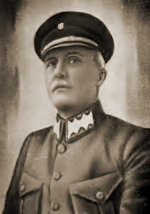 Myron Tarnavsky (1869-1938), Ukr. Мирон Тарнавський - a supreme commander of the Ukrainian Galician Army, the military of the West Ukrainian People's Republic .